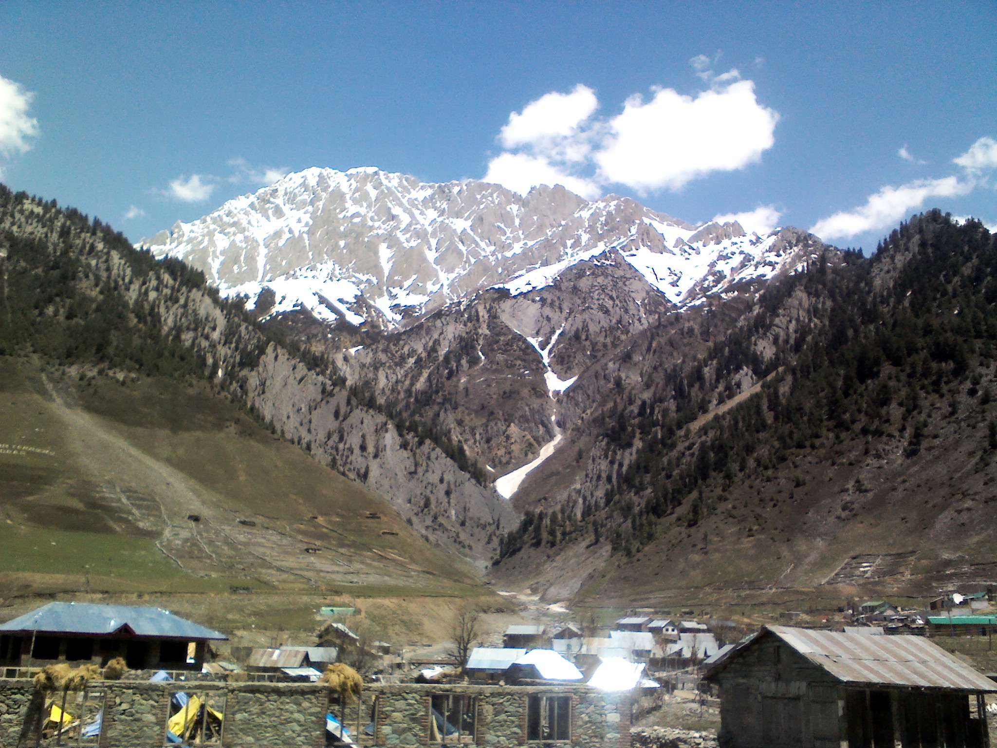 Sonamarg